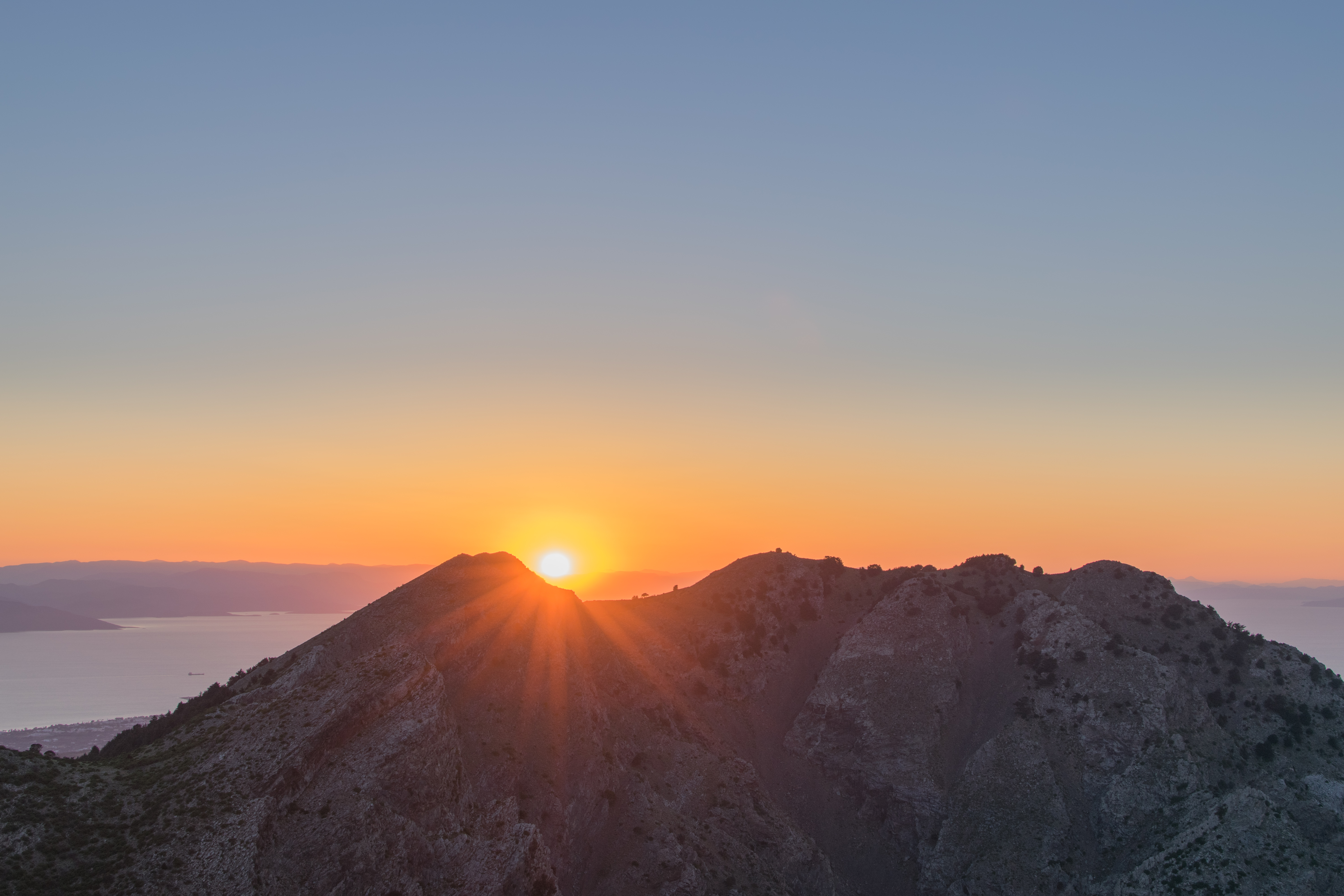 This is a photography of Natura 2000 protected area with ID GR4210008